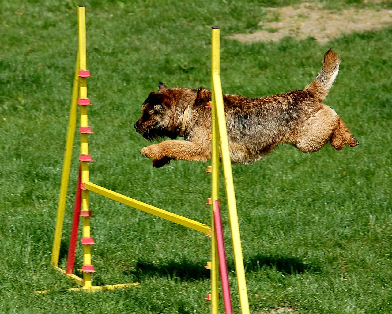 Border Terrier performing jump in Dog Agility